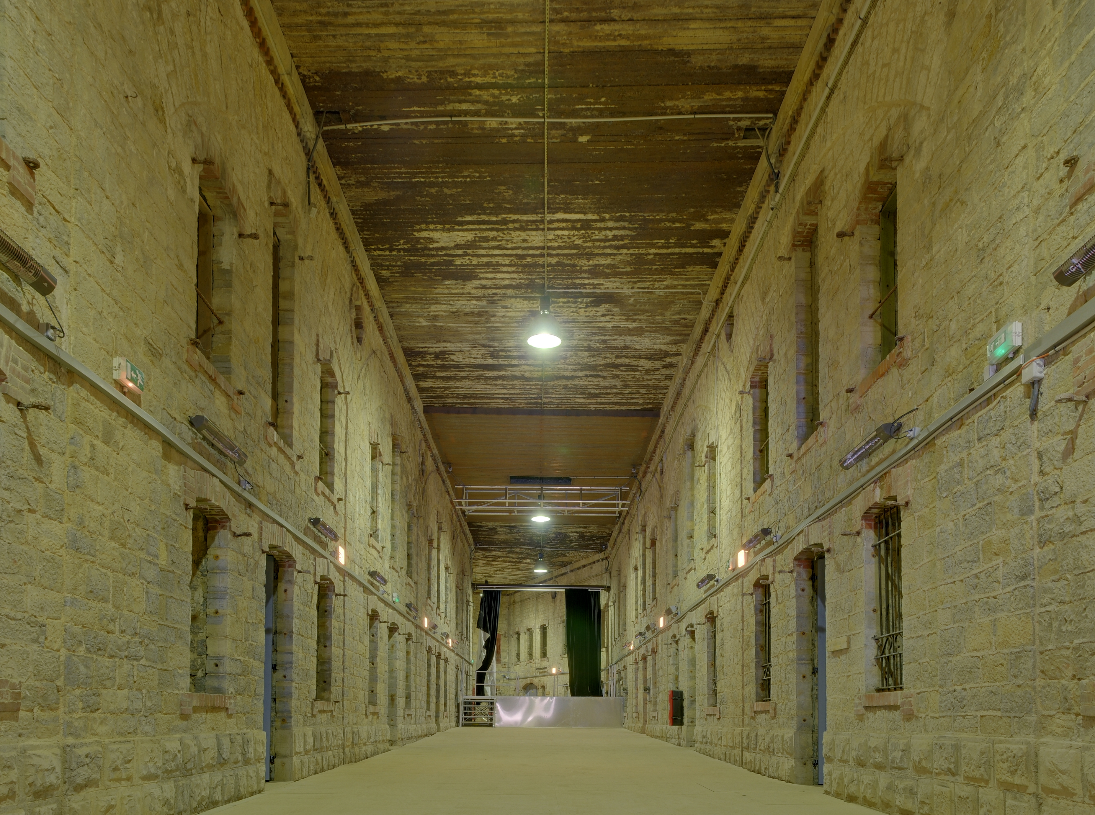 Bart hill fortifications (HDR).